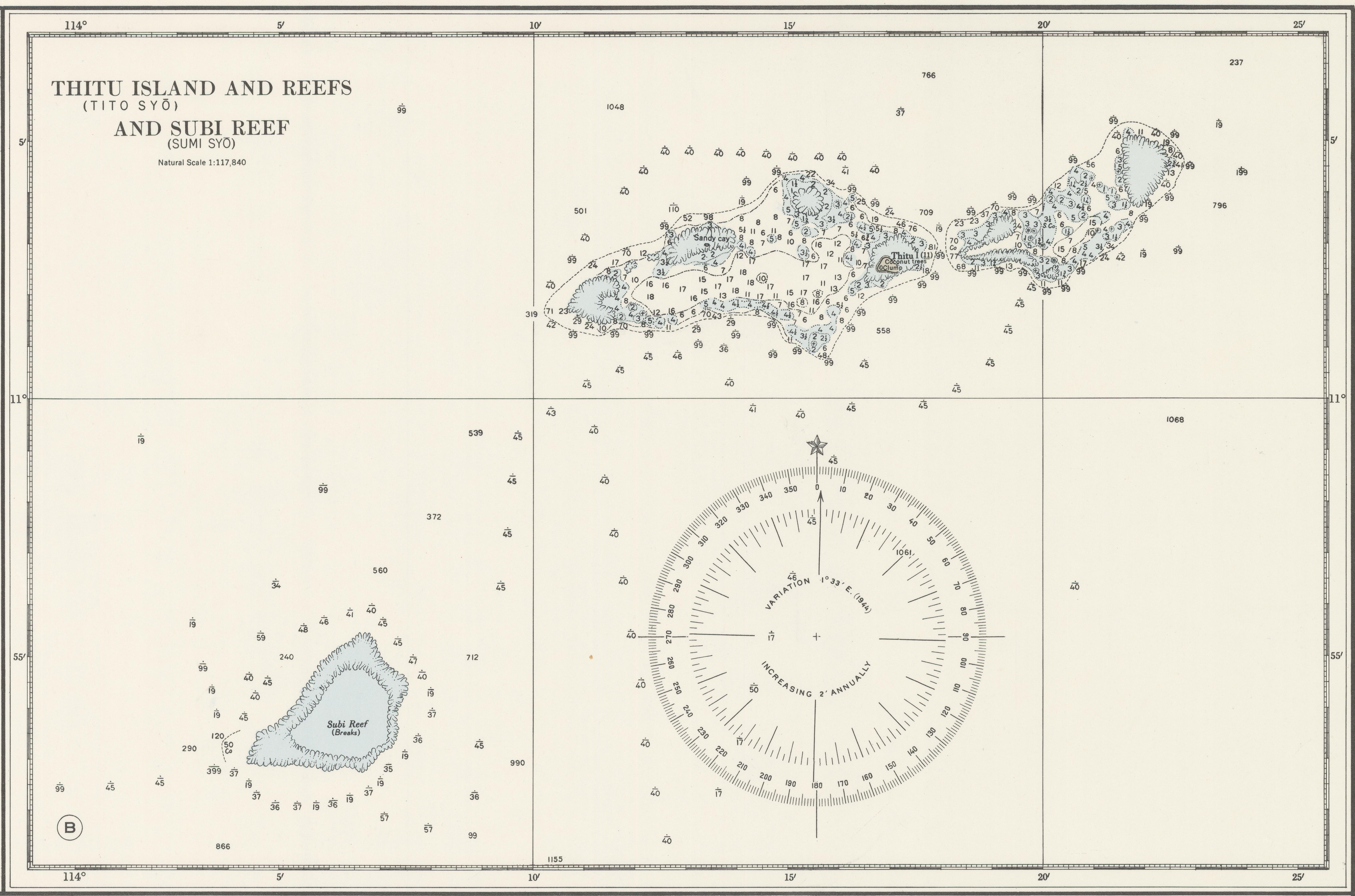 Nautical chart of islands, atolls, and reefs in the South China Sea: North Danger (atoll), Thitu Islands and Reefs (atoll, reef) and Subi Reef, Loita Island and Reefs (atoll), Tizard Bank (atoll)